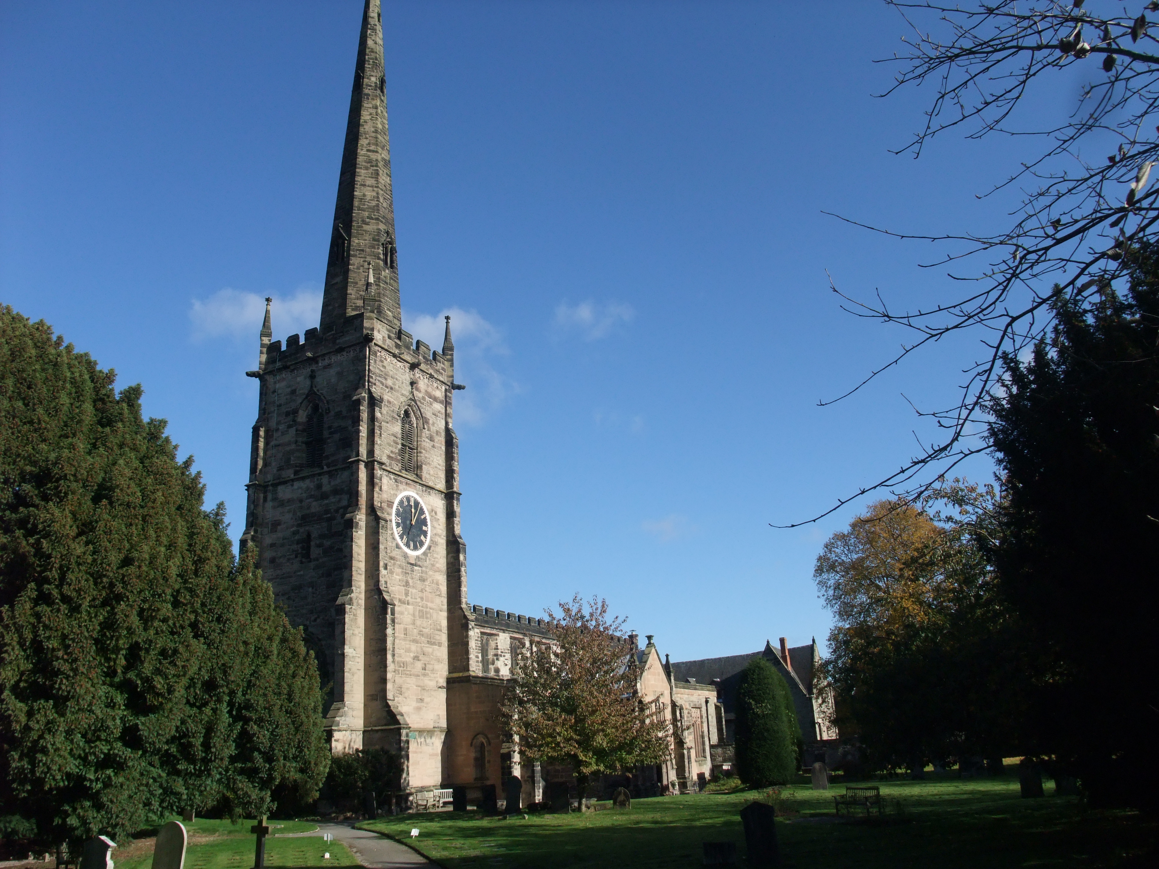 Church of England parish church of St Wystan, Repton, Derbyshire